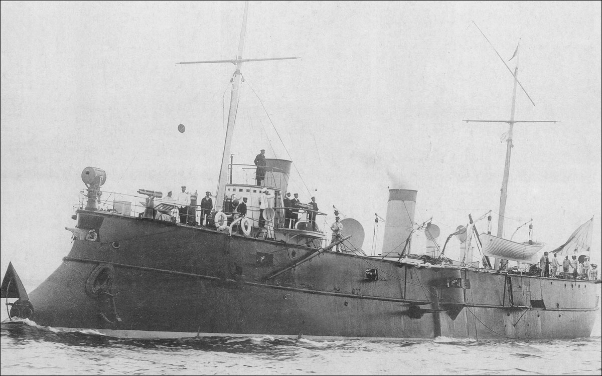 Imperial Russian torpedo cruiser Leitenant Il'in.